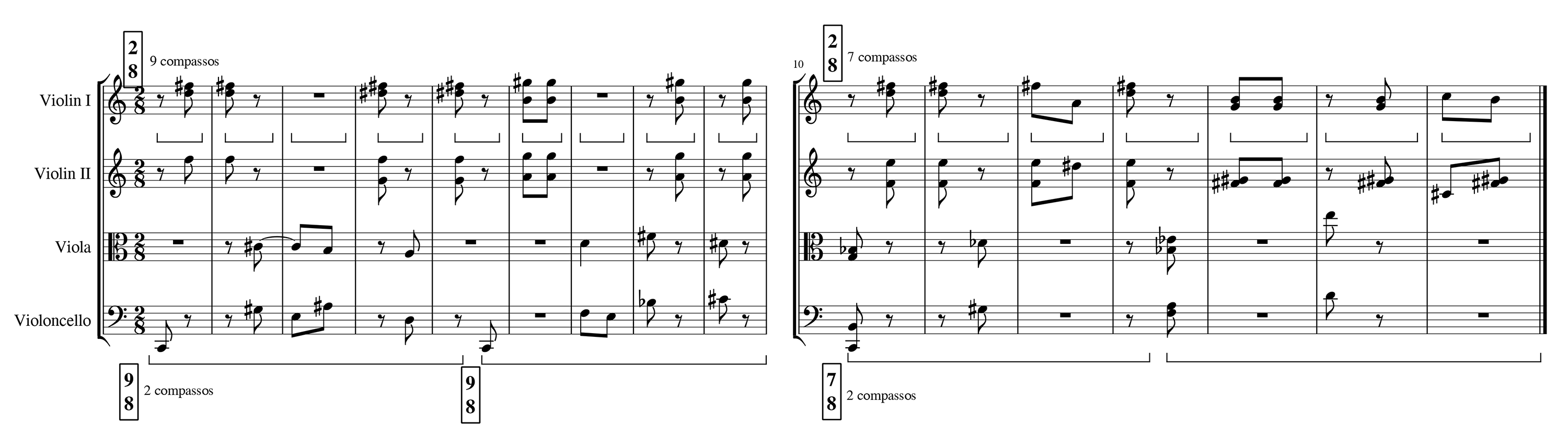 Cyclic meter trains appearing at the 4th movement of Robert Gerhard's String Quartet n. 1